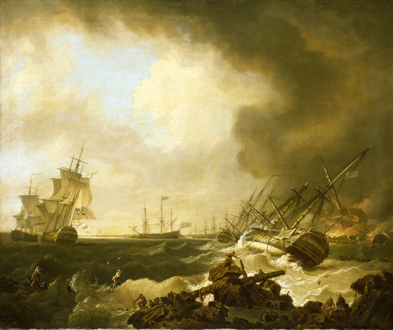 The French Soleil Royale and Héros are in flames on the right, in the foreground HMS Resolution lies wrecked on her starboard side. In front of her is HMS Essex, with other members of the British fleet at anchor in the background. The captured French Formidable is attended by a British frigate on the left of the picture.